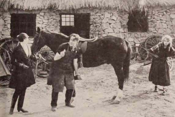 Still from the American drama film His Own People (1917) with Betty Blythe, Harry T. Morey, and Gladys Leslie, on page 27 of the January 19, 1918 Exhibitors Herald.